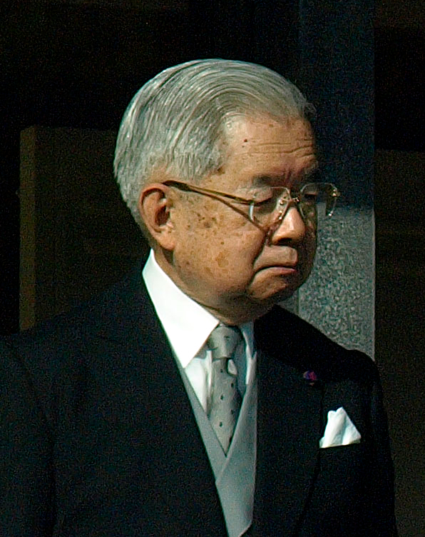 Prince Masahito appeared the "Visit of the General Public to the Palace for the New Year Greeting" at the Tokyo Imperial Palace in Chiyoda Ward, Tōkyō Metropolis on January 2, 2011.